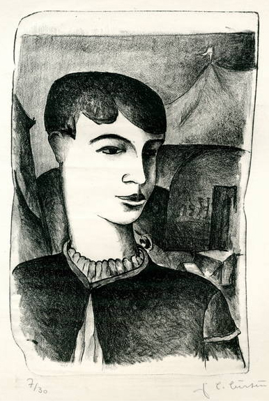 Self-portrait